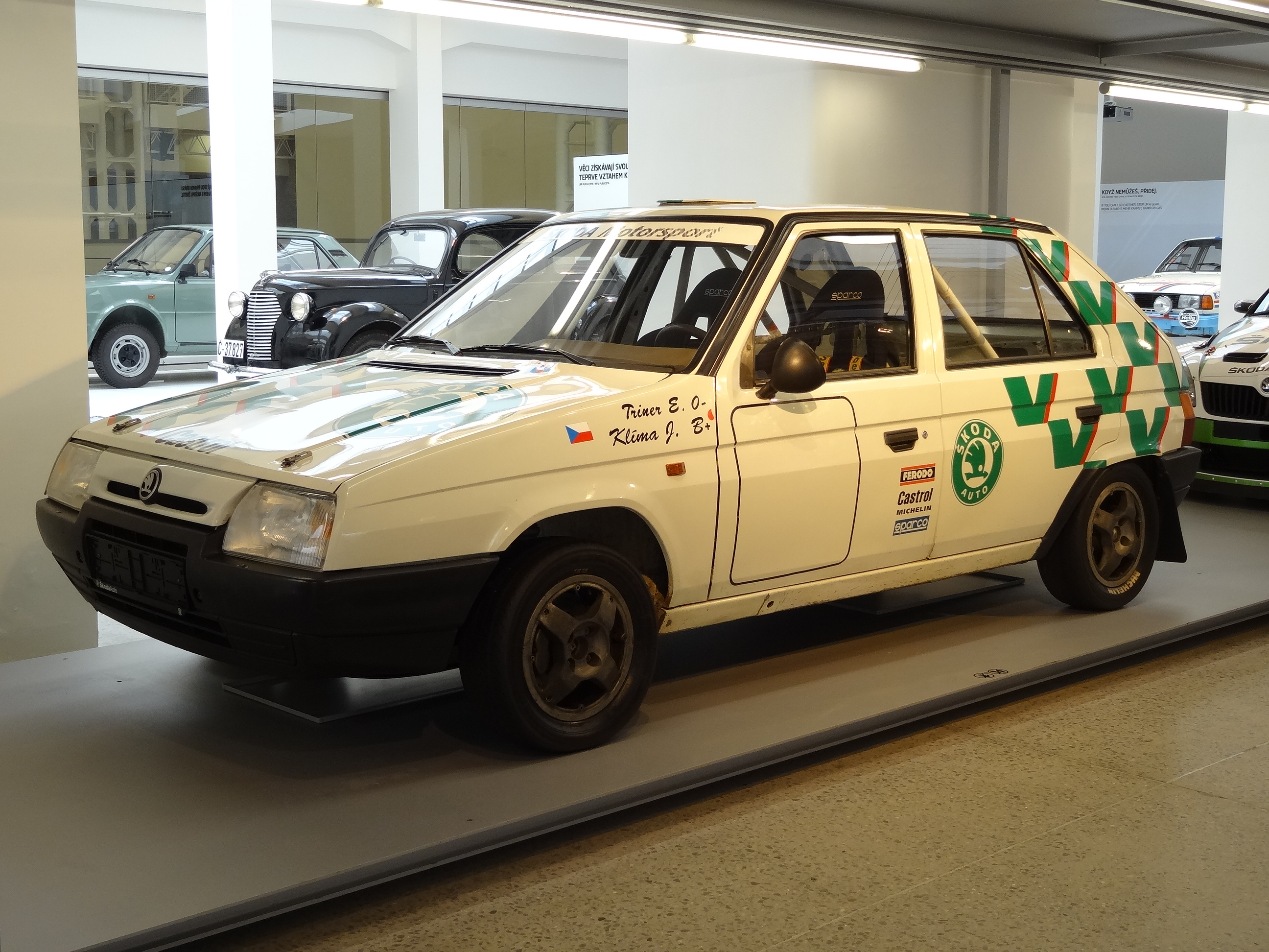 years of production: 1989-94, cylinders: 4, displacement: 1300 ccm, output: 88kw (118hp), gearbox: 6+R, max speed 210 km/h